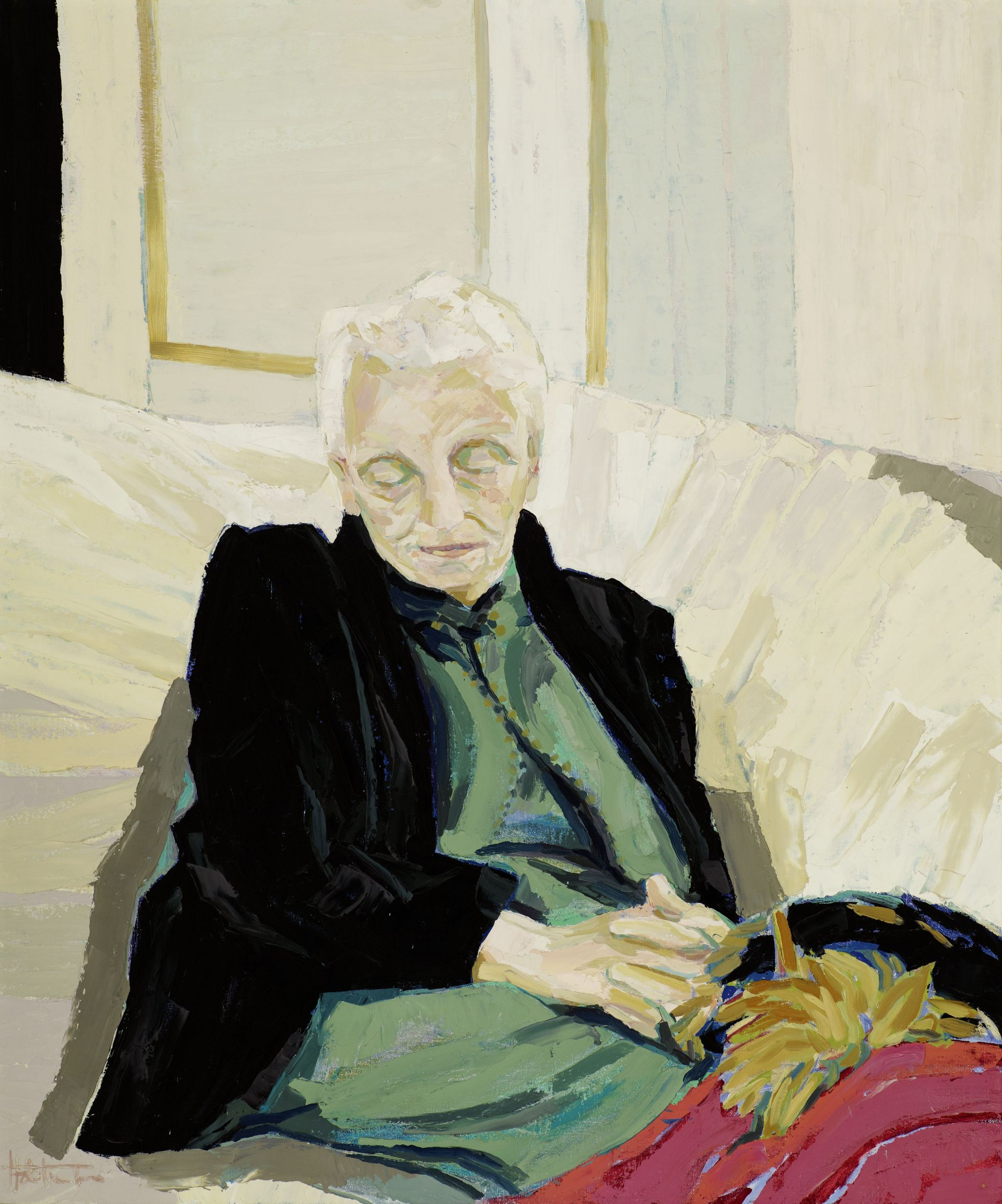 Old mother of the painter